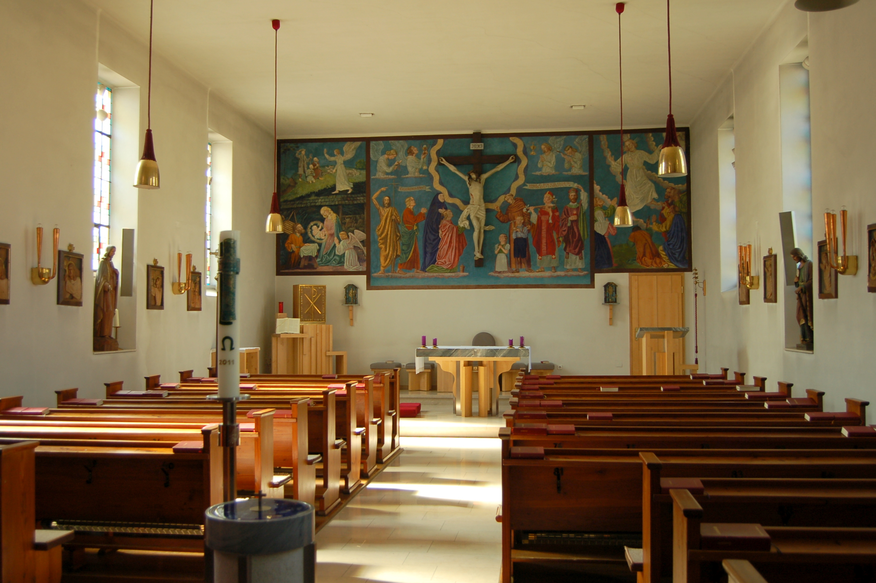 Interior of St. Anthony of Padua parish church in Bad Erlach, Lower Austria